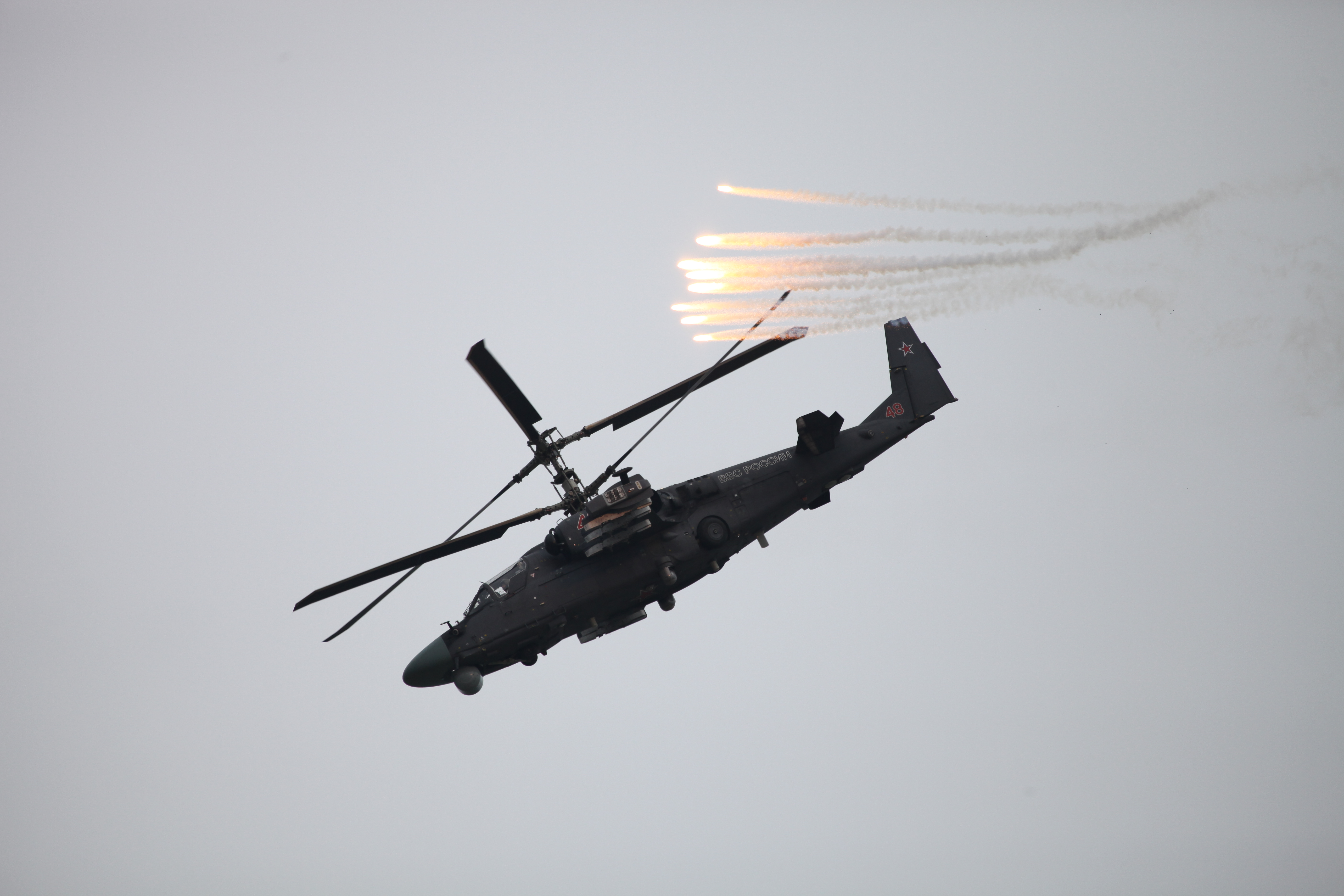 Ka-52 at the MAKS-2013